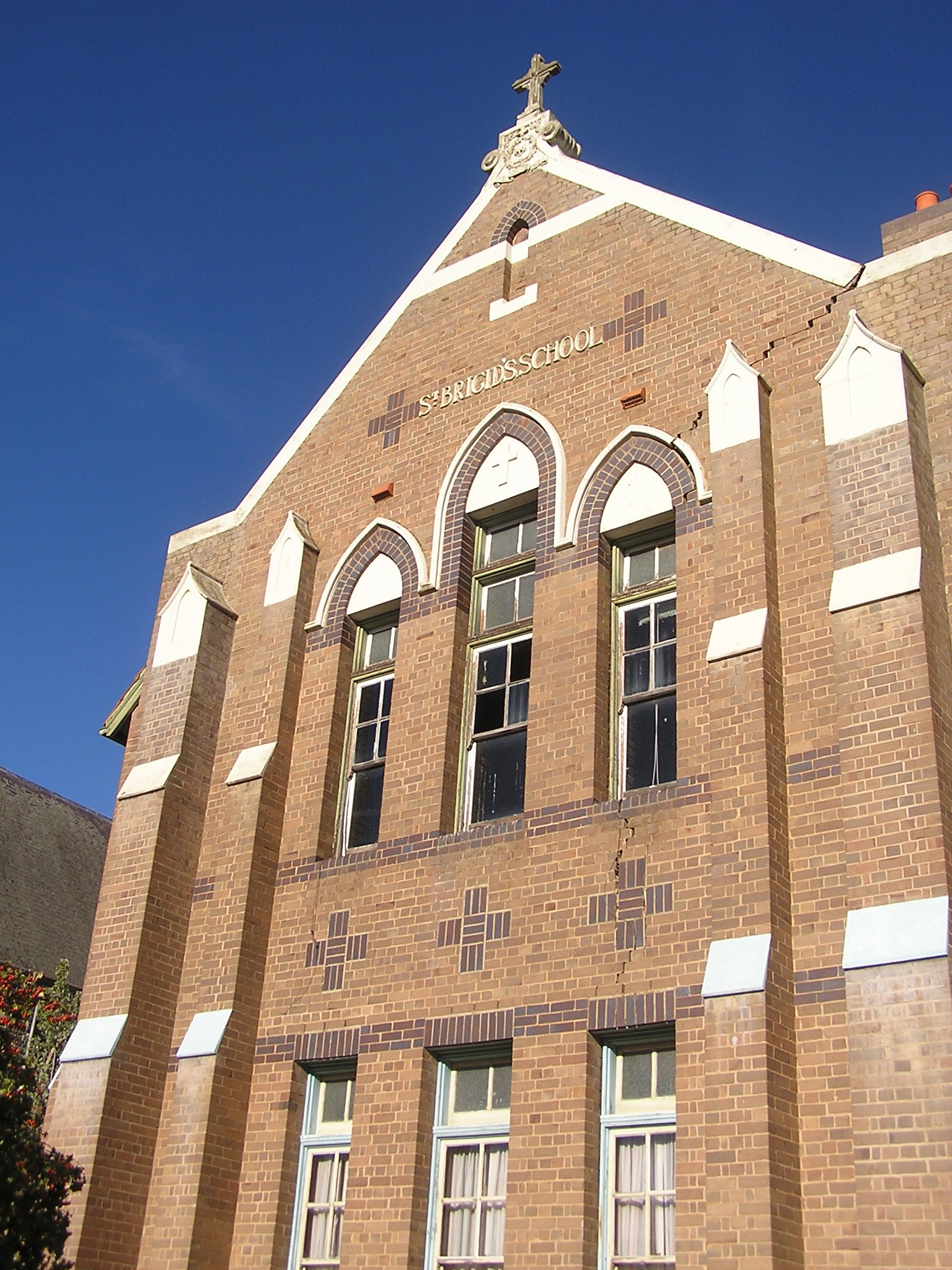 An education strike in 1962 by parents of St Brigid's school in Goulburn, New South Wales|Australia resulted in government reform to state aid for non-Government schools. Photo taken by AYArktos